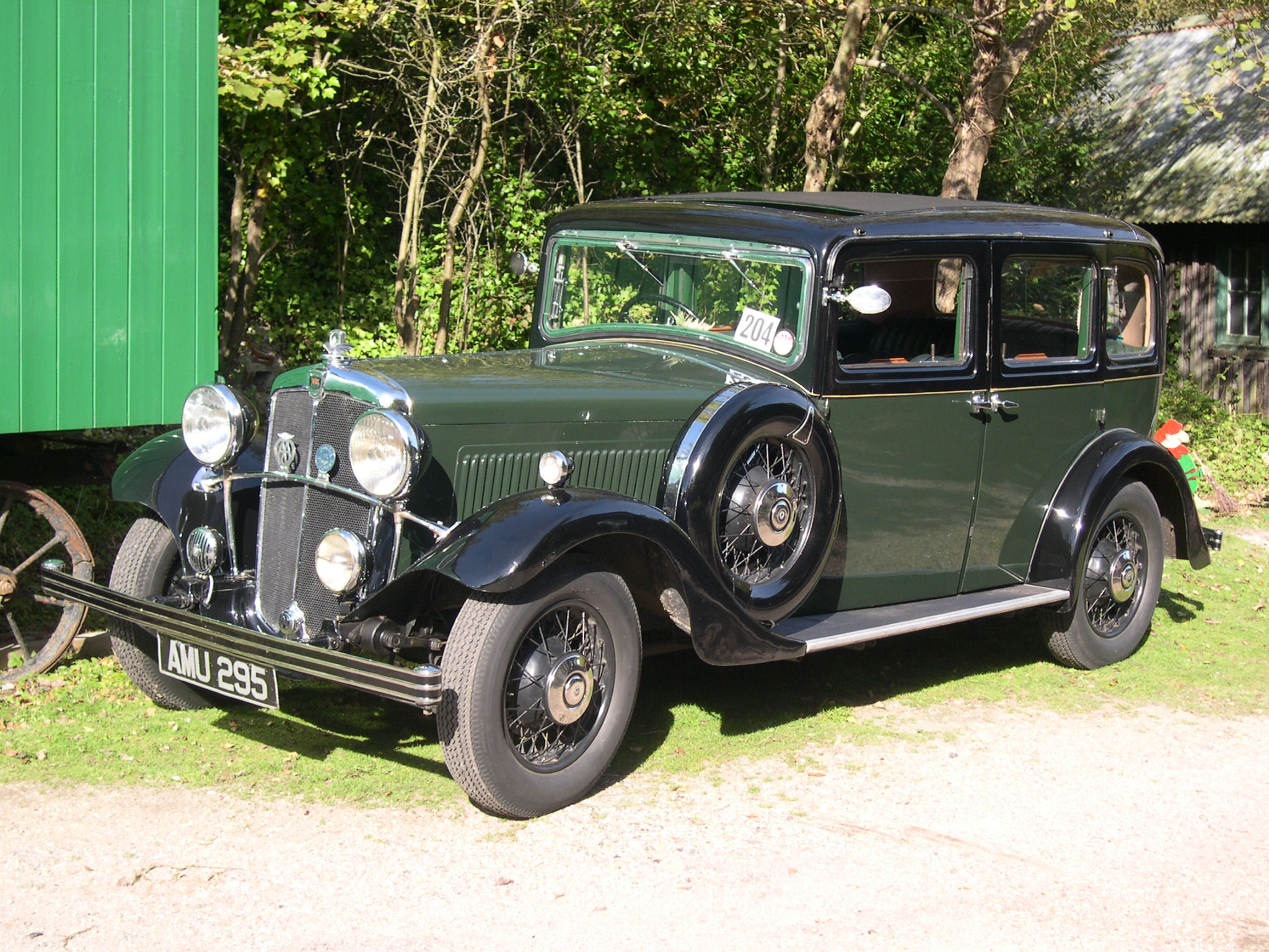 1935 Morris Oxford Sixteen Six (DVLA) first registered 1 January 1935, 2107cc Should be 65.5 x 102 mm = 2062 cc side valve with Freewheel and Bendix clutch